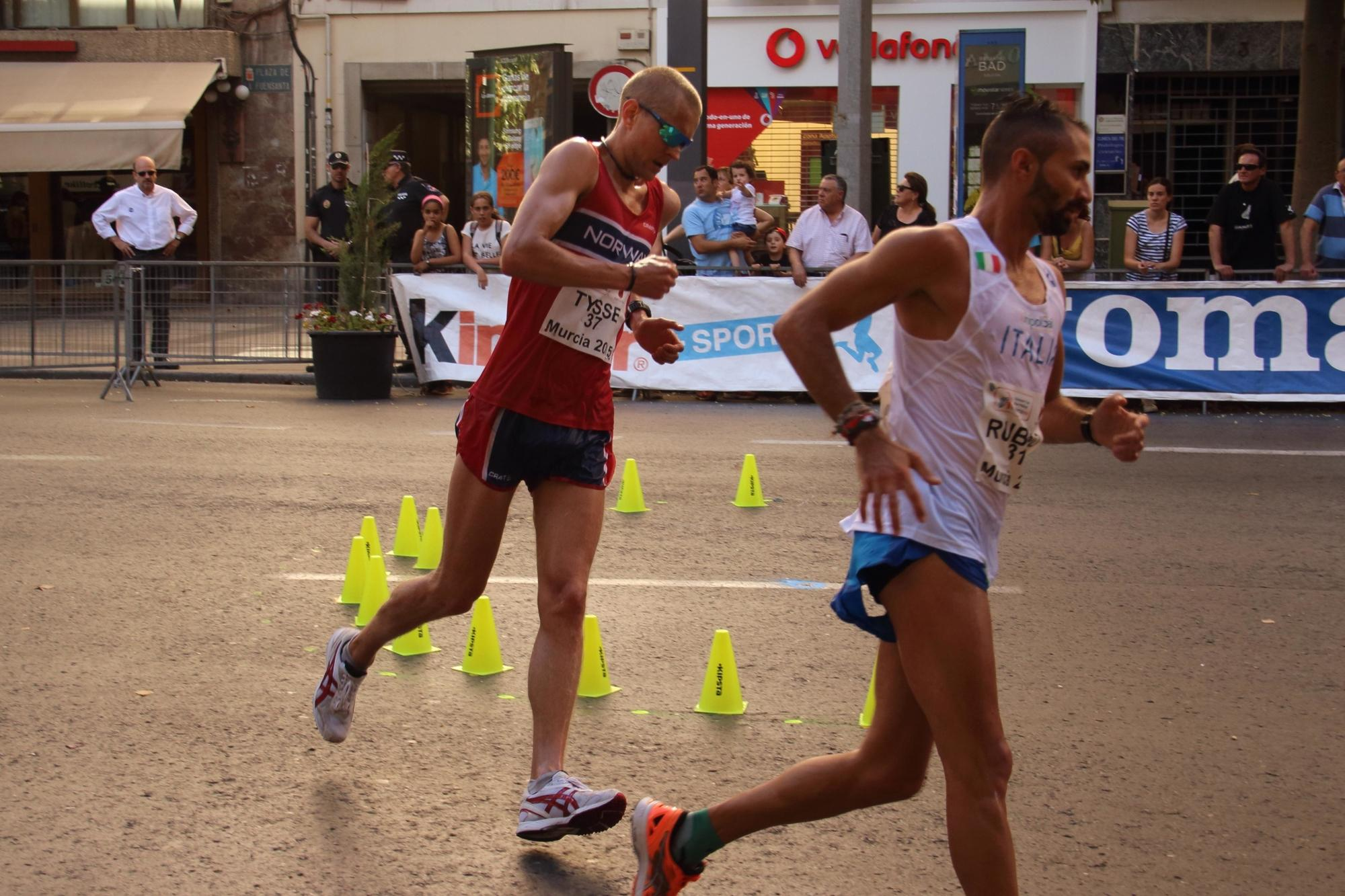 37-Erik Tysse (NOR) in the 11th European Cup Race Walking Murcia ESP 17 May 2015